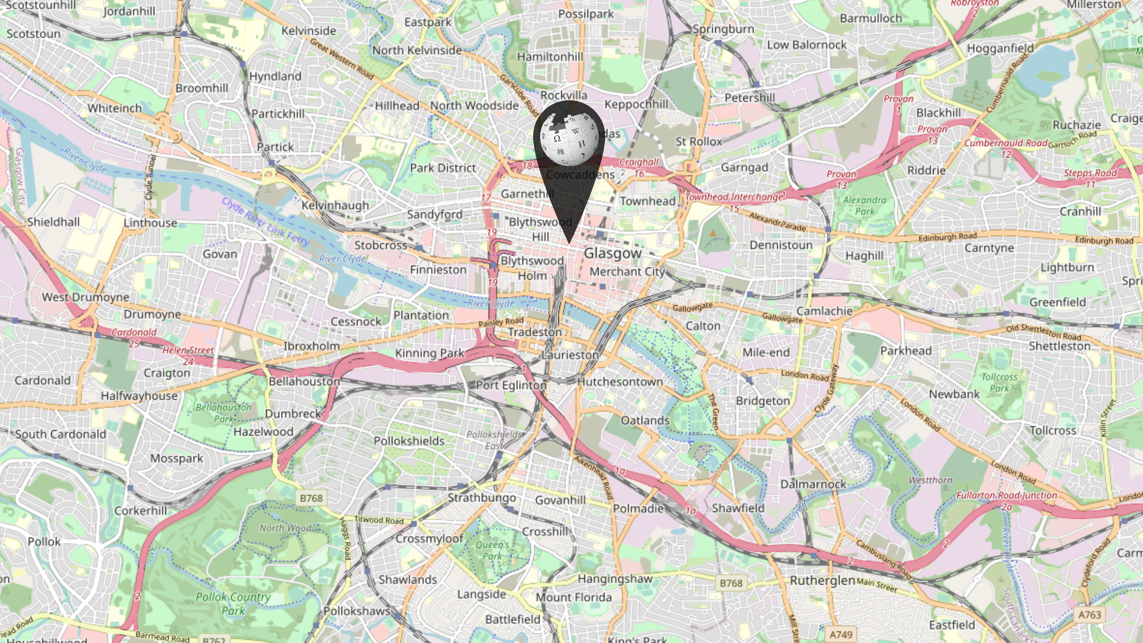 The place where the Glasgow stabbing occurred.